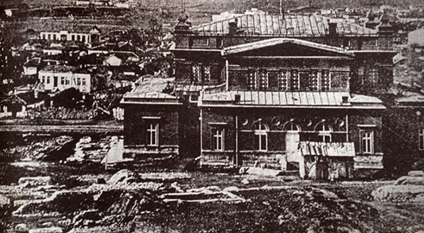 Final construction of the National Assembly of Bulgaria.